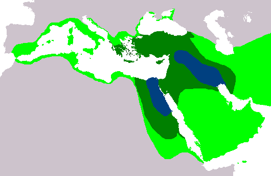 The slow spread of literacy. The dark blue areas were literate at around 2300 BCE. The dark green areas were literate at around 1300 BCE. The light green areas were literate at around 300 BCE. Note that other Asian societies were literate at these times, but they are not included on this map. Note also that even in the colored regions, functional literacy was usually restricted to a handful of ruling elite. I, User:Quadell, made this map from public domain sources.